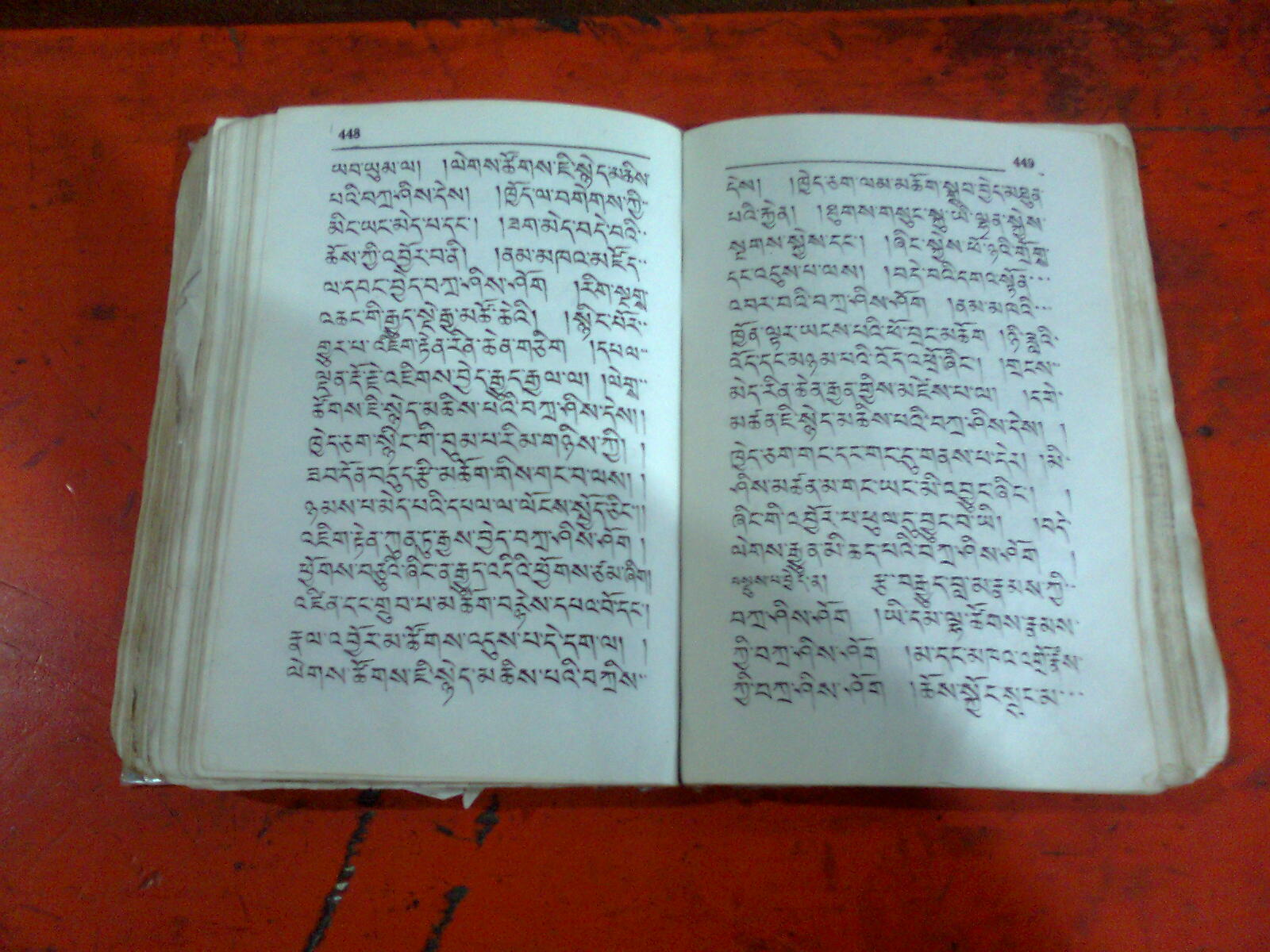 Holy Text